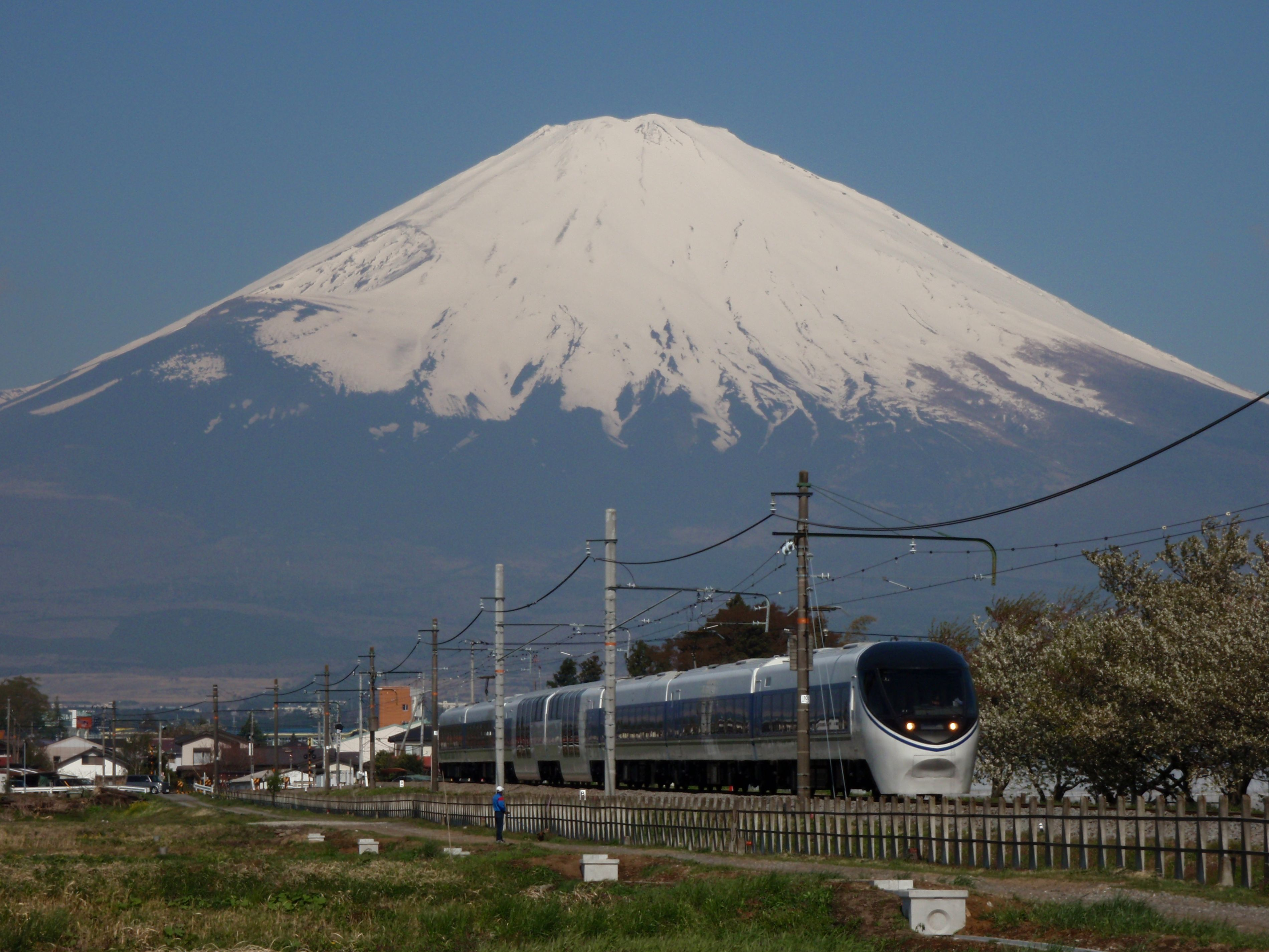 Limited Express "Asagiri" in Gotemba line against the background of Mt.Fuji.